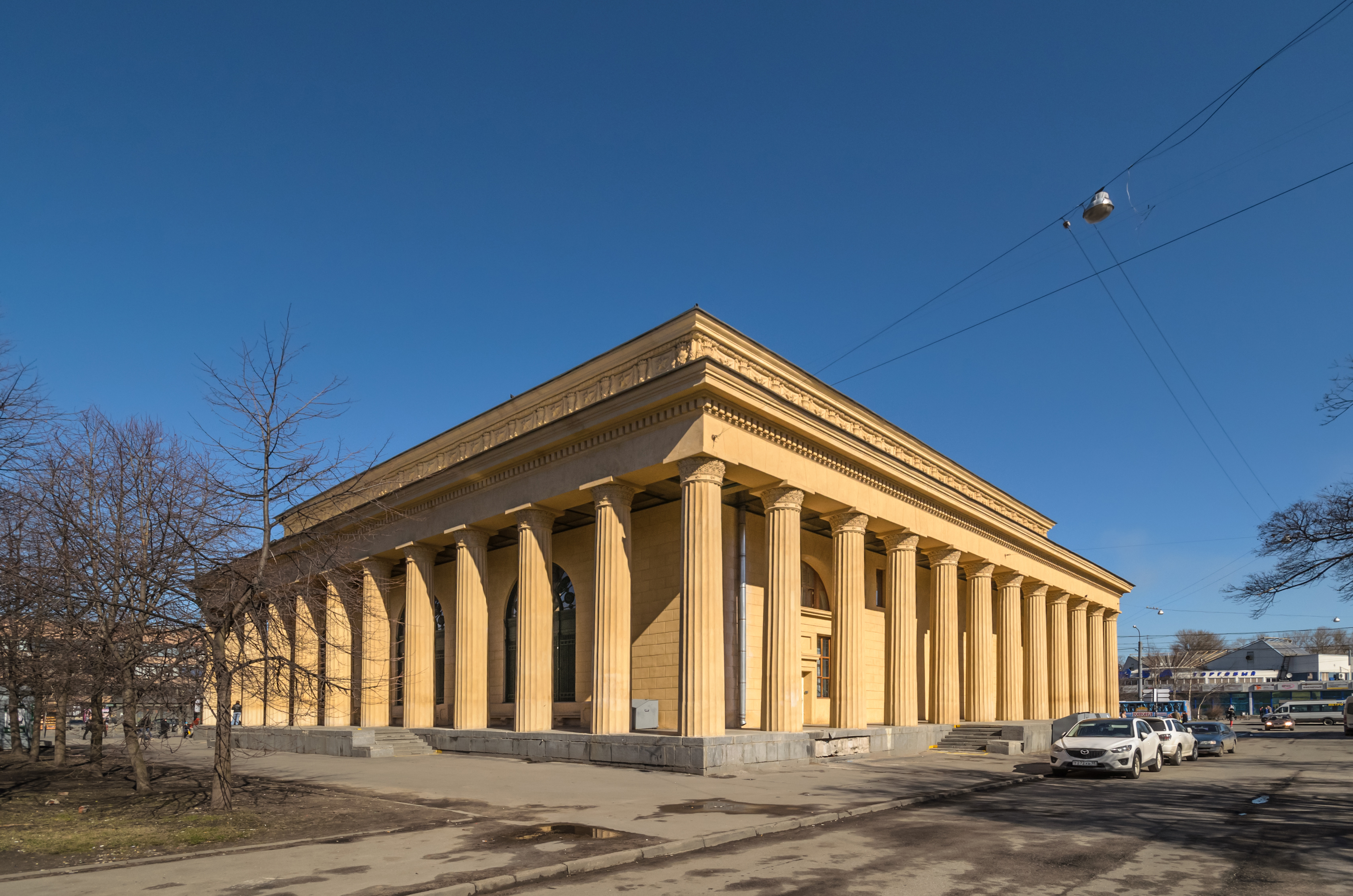 Kirovsky Zavod station of Saint Petersburg Subway, pavilion